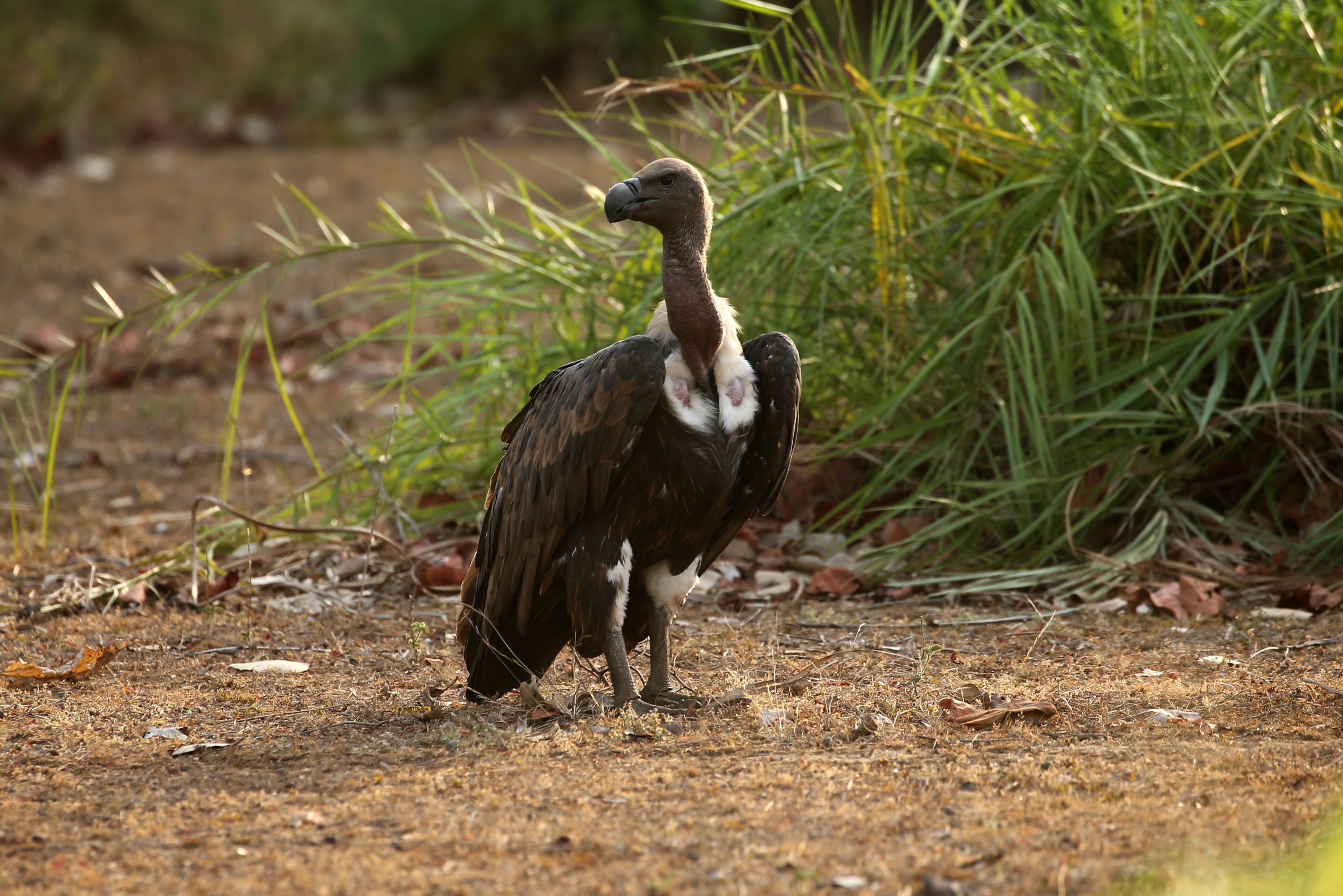 white-rumped vulture